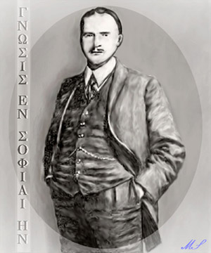 orginal/ modified et drawn by Maris stella